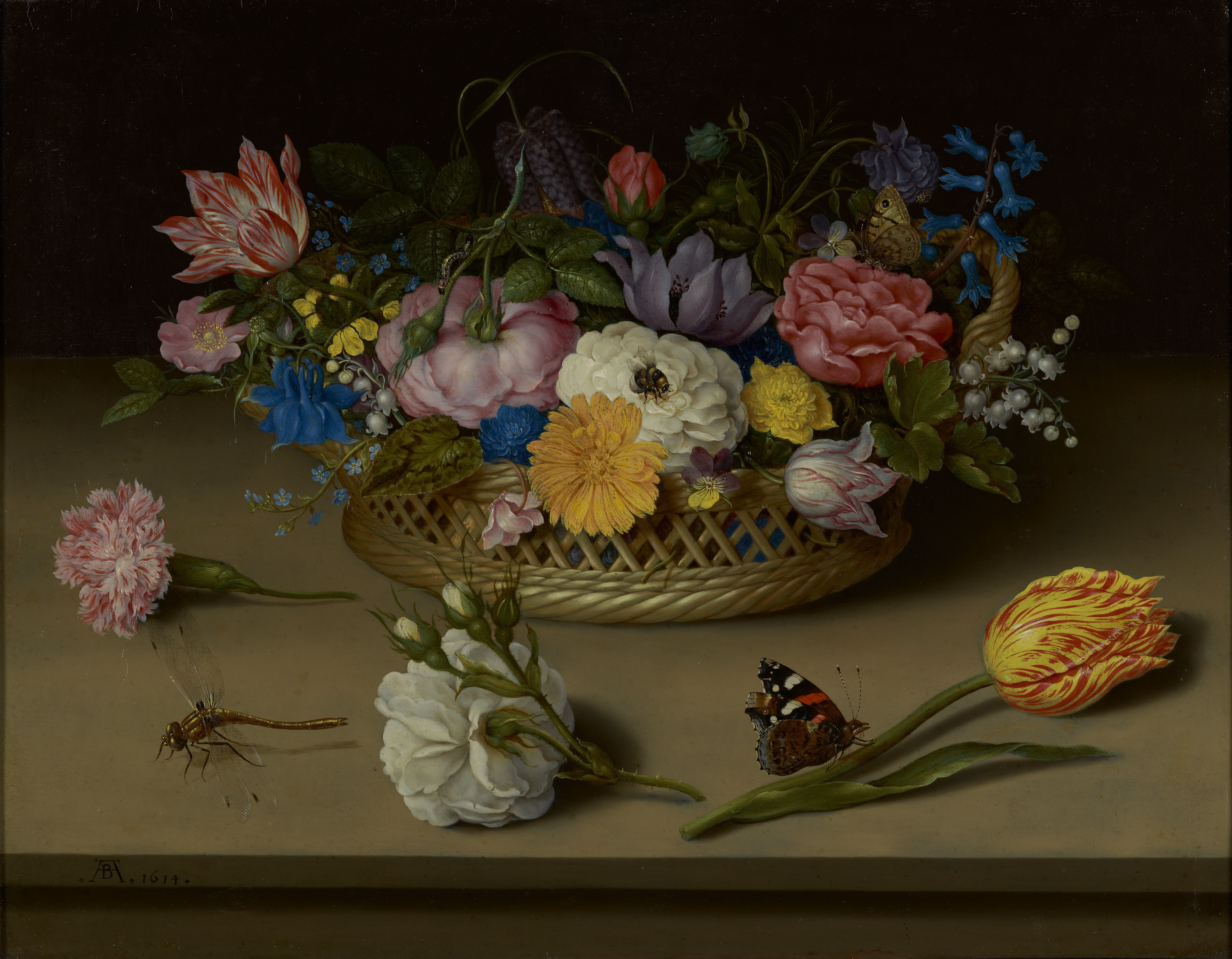 A pink carnation, a white rose, and a yellow tulip with red stripes lie in front of a basket with flowers, that would not bloom together: roses, forget-me-nots, lilies-of-the-valley, a cyclamen, a violet, a hyacinth, and tulips. Insects, short-lived like flowers, remind of the brevity of life and the transience of its beauty.